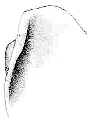 Drawing of ventral view of the shell of Lophopleurella capensis.